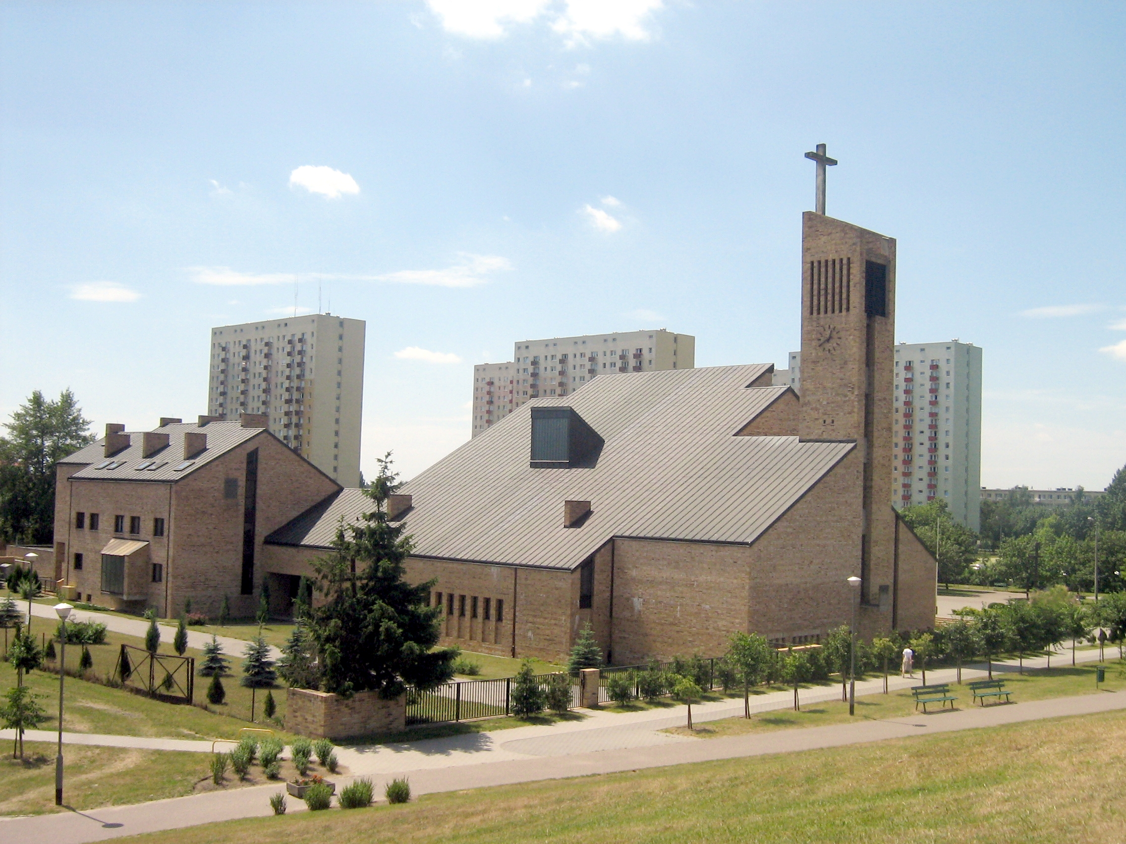 Church of Ascension of Jesus Christ in Poznań (Poland)